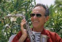 Doudou Gouirand at home in south of France